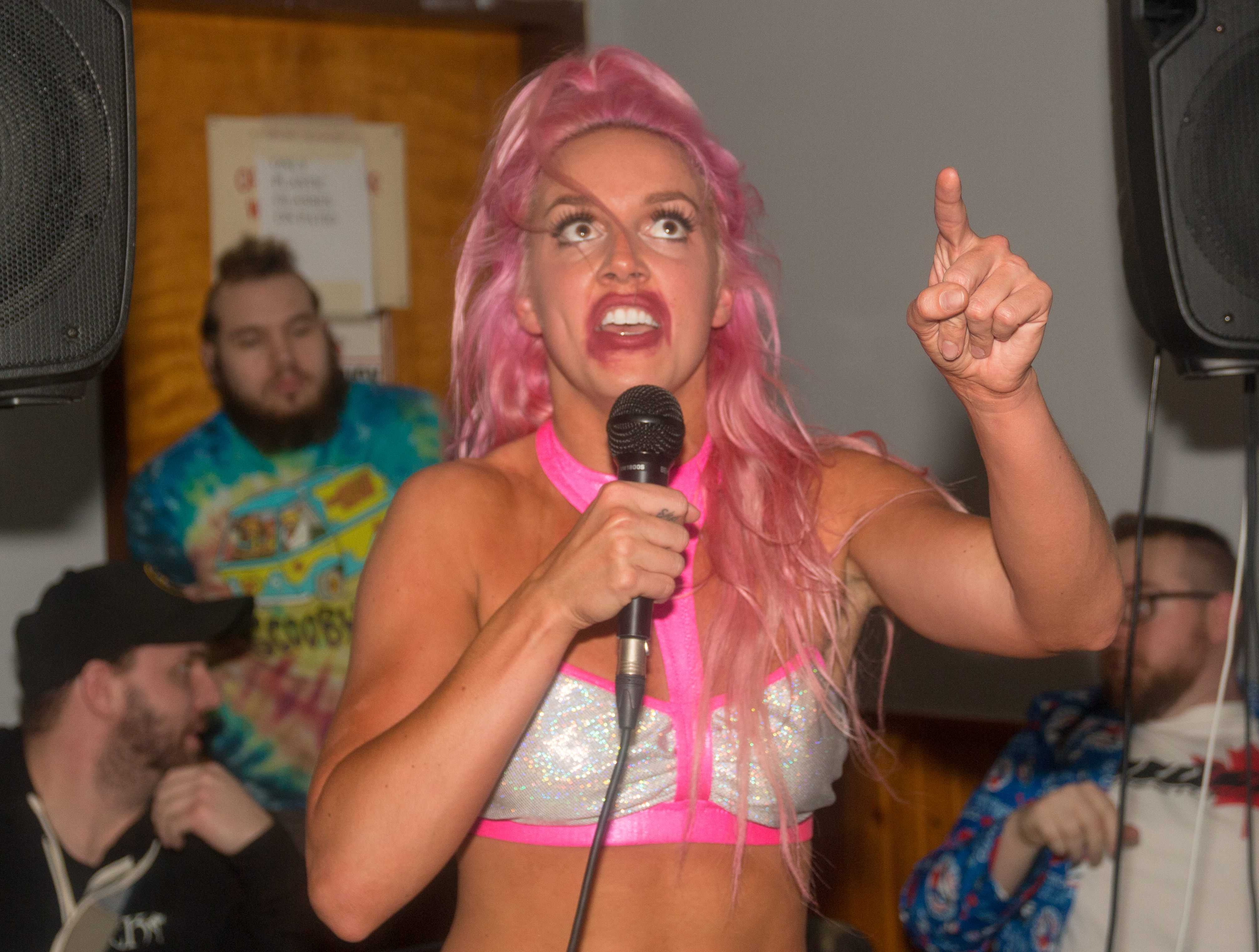 Chelsea Green engaging in post-match theatrics following a loss, at a PWA show in Guelph, ON